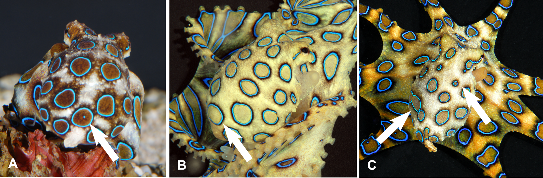 Original caption: "Figure 1. Variable ring patterns on mantles of the blue-ringed octopus Hapalochlaena lunulata. Note the small fleck of blue in the ring indicated in panel A, which is missing from the corresponding ring in panel B. The individual in panel C bears disproportionally small rings near the head, as well as merged rings left side. All photographs by Roy Caldwell."